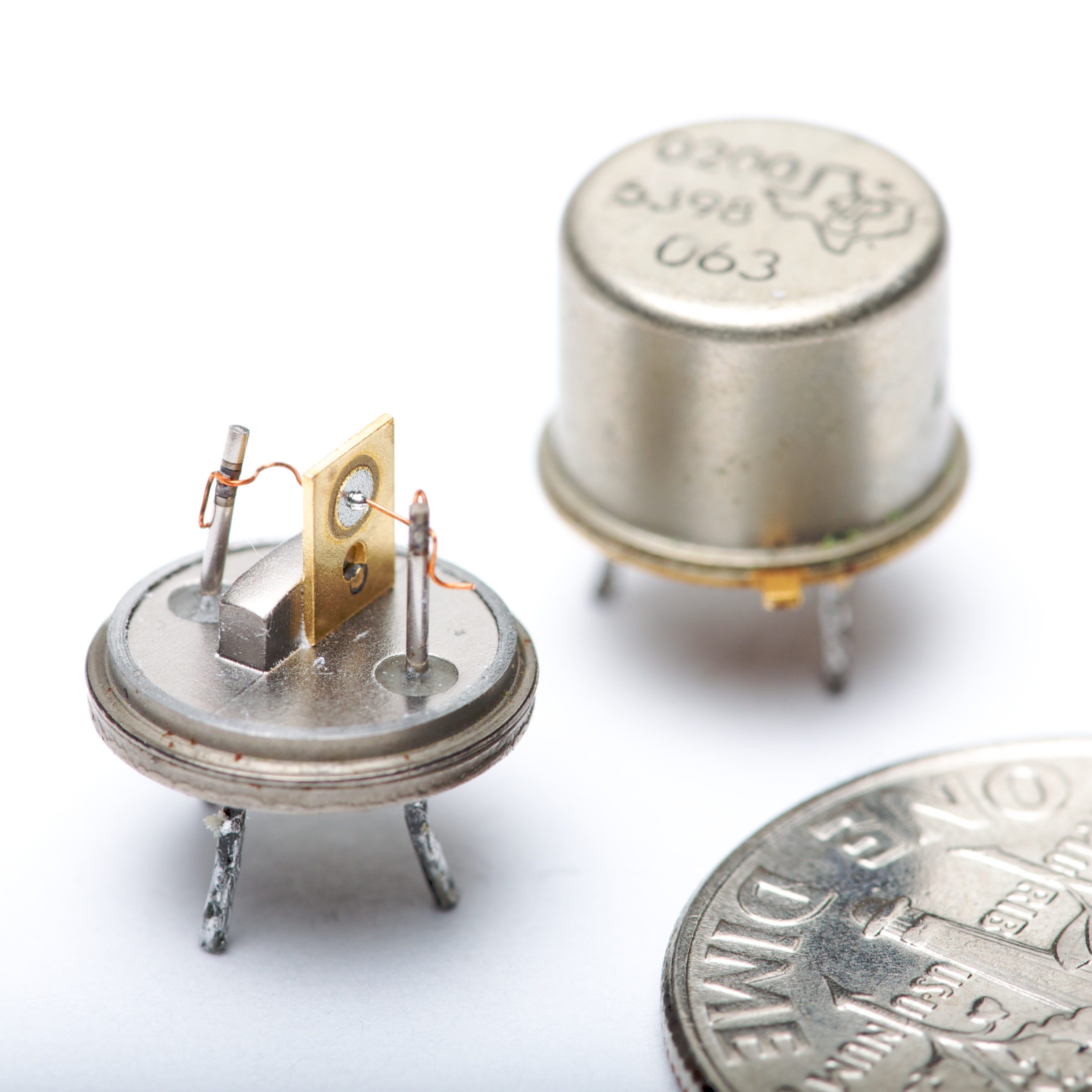 An early transistor used in IBM 1401